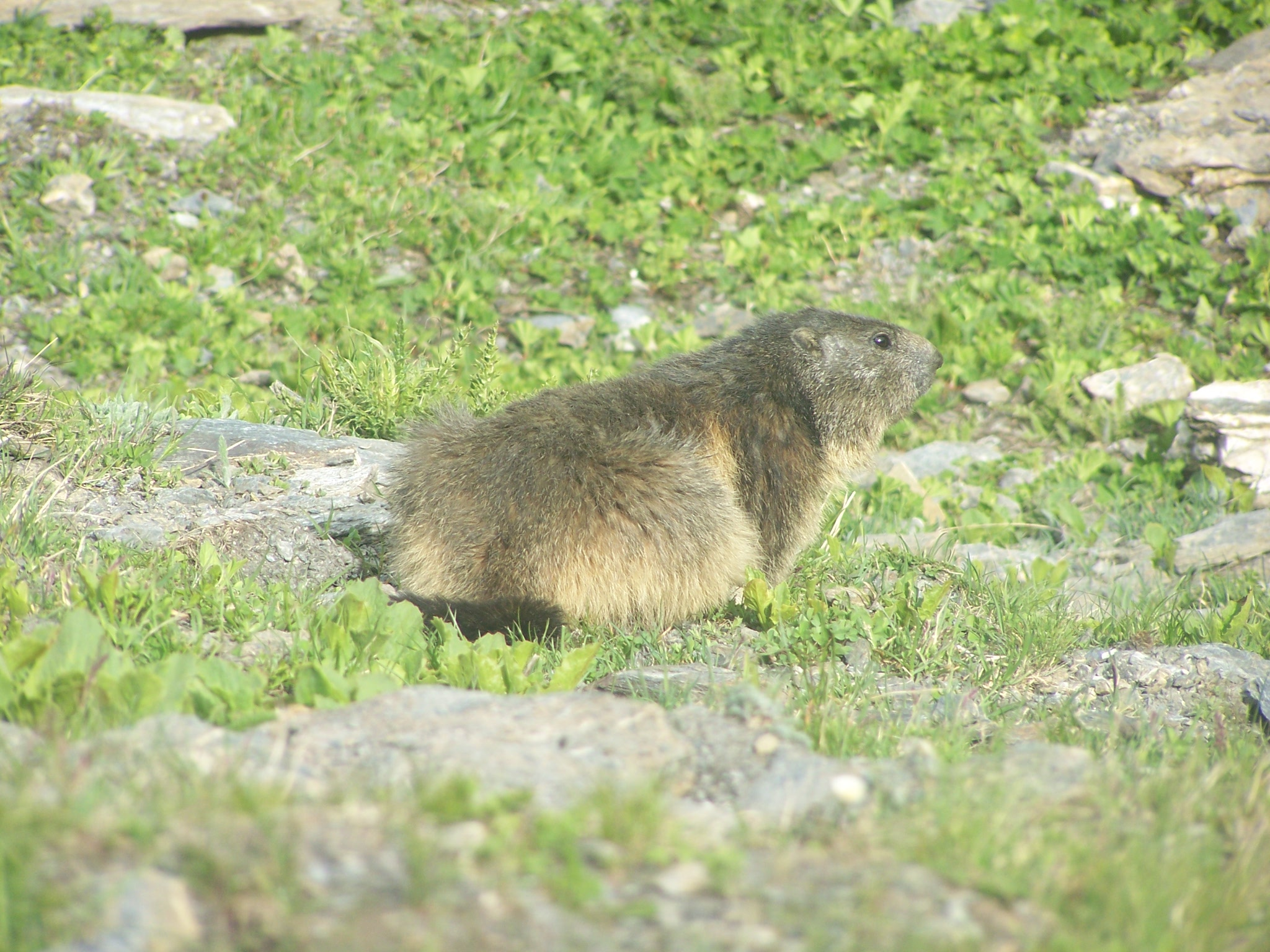 Marmot seen in the Vanoise national park, in the French Alps of Savoie.